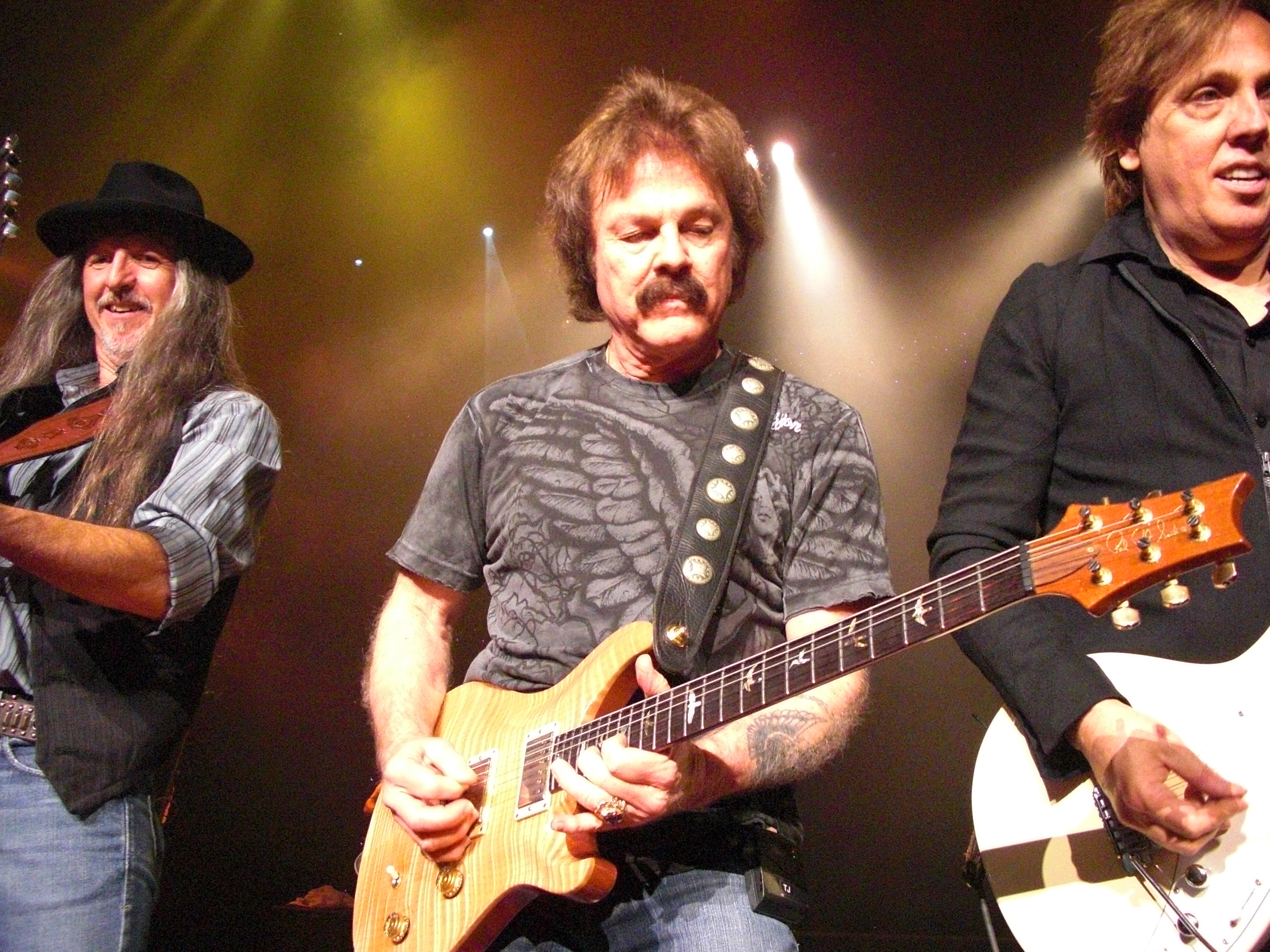 Las Vegas, Nevada Hilton. Doobie Brothers enjoying playing together still after over three decades of success. Ltrː Pat Simmons, Tom Johnston and John McFee